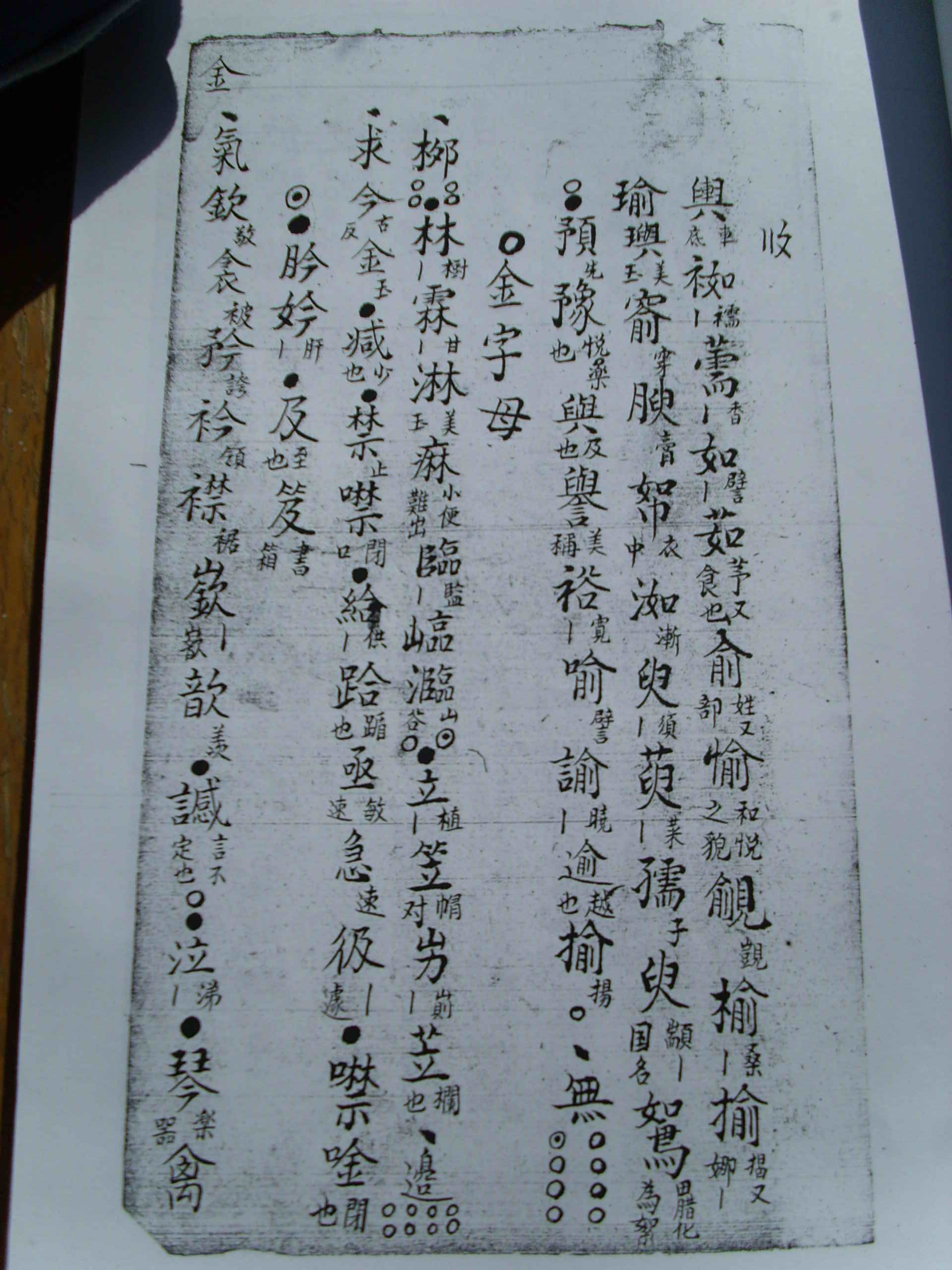 Page from the Anqiang bayin 安腔八音, a rhyme dictionary describing the Fu'an dialect published in 19th century.